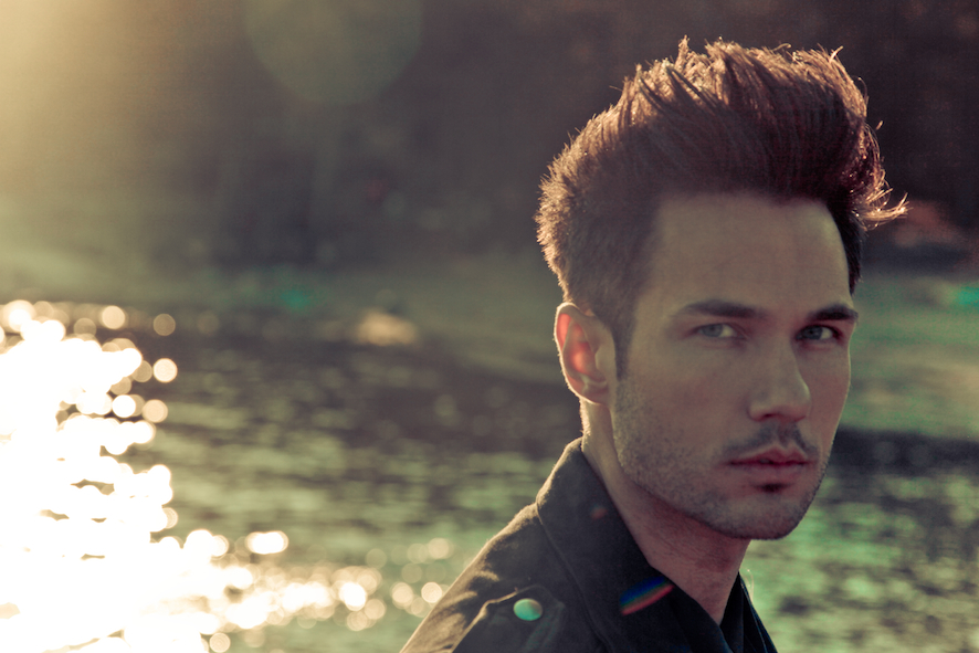 Jonas Myrin